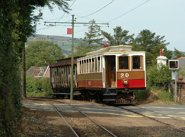 Manx Electric Railway - Isle of Man. Car No.20 crosses the road into Baldrine Station.